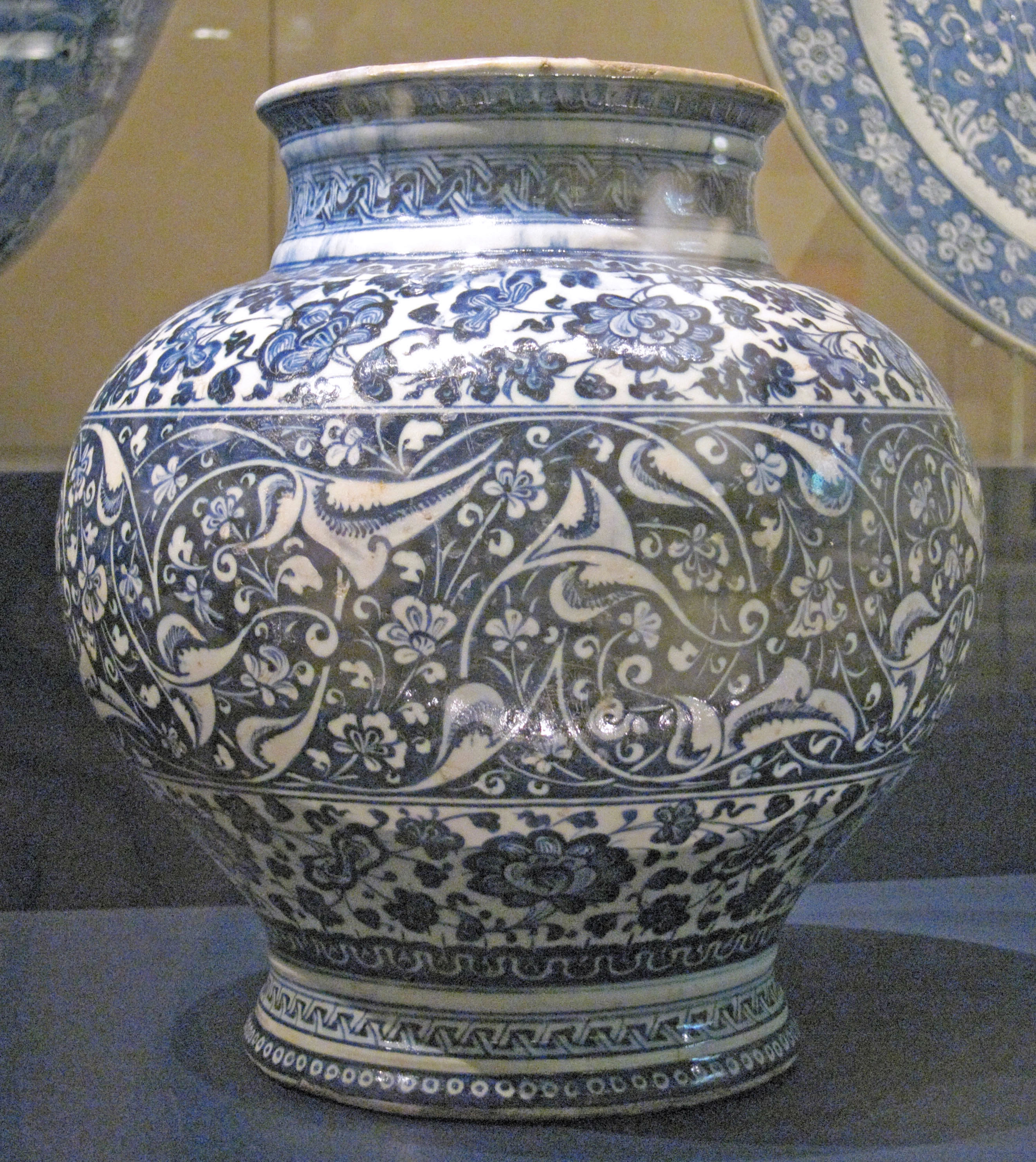 Iznik jar